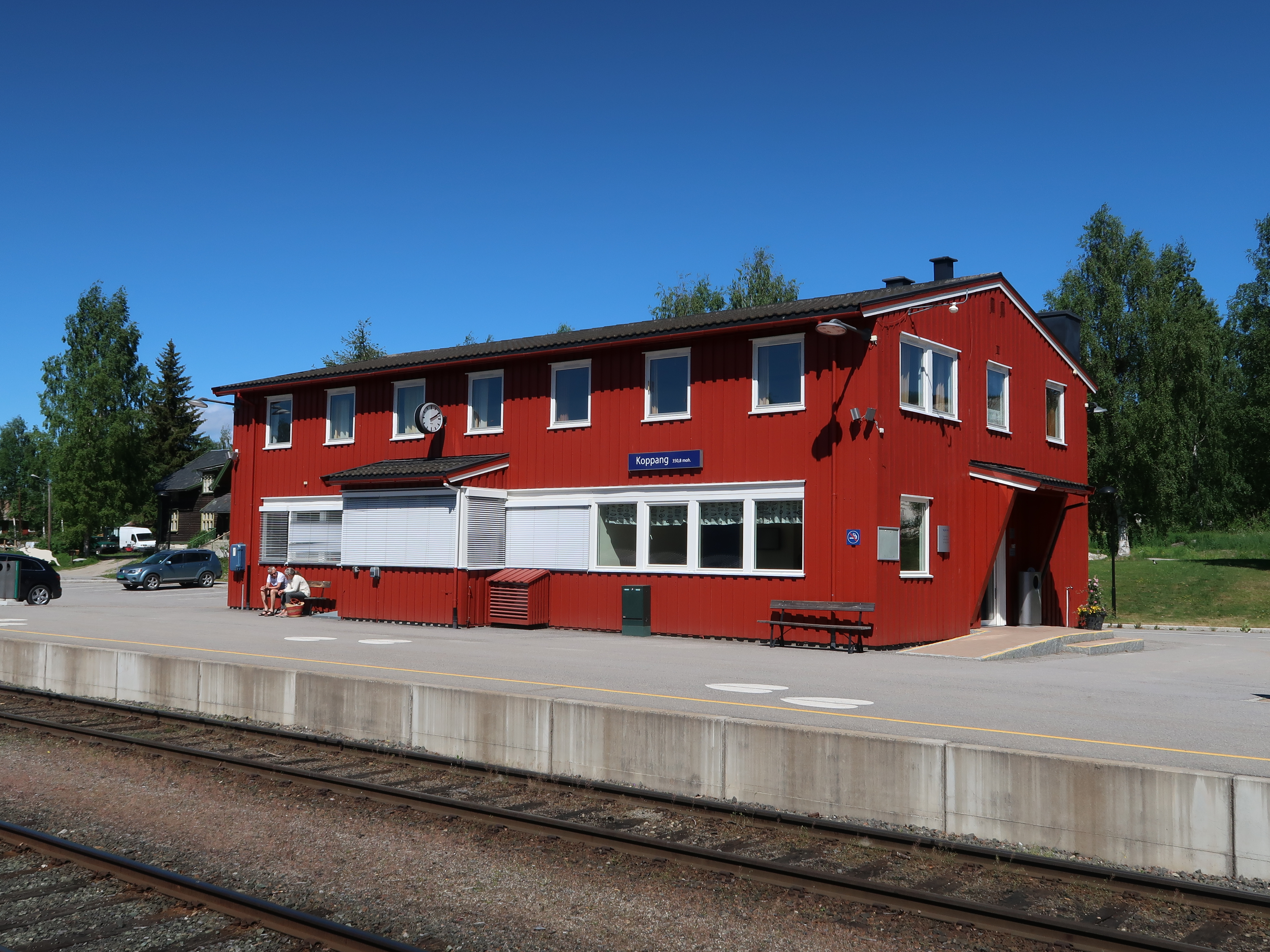 Koppang Station (1959)